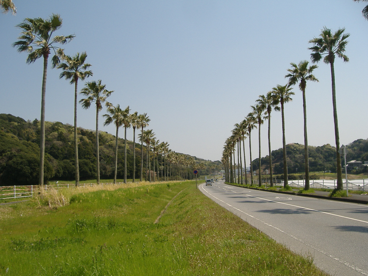 R127_Tateyama-Bypass(Chiba, Japan)